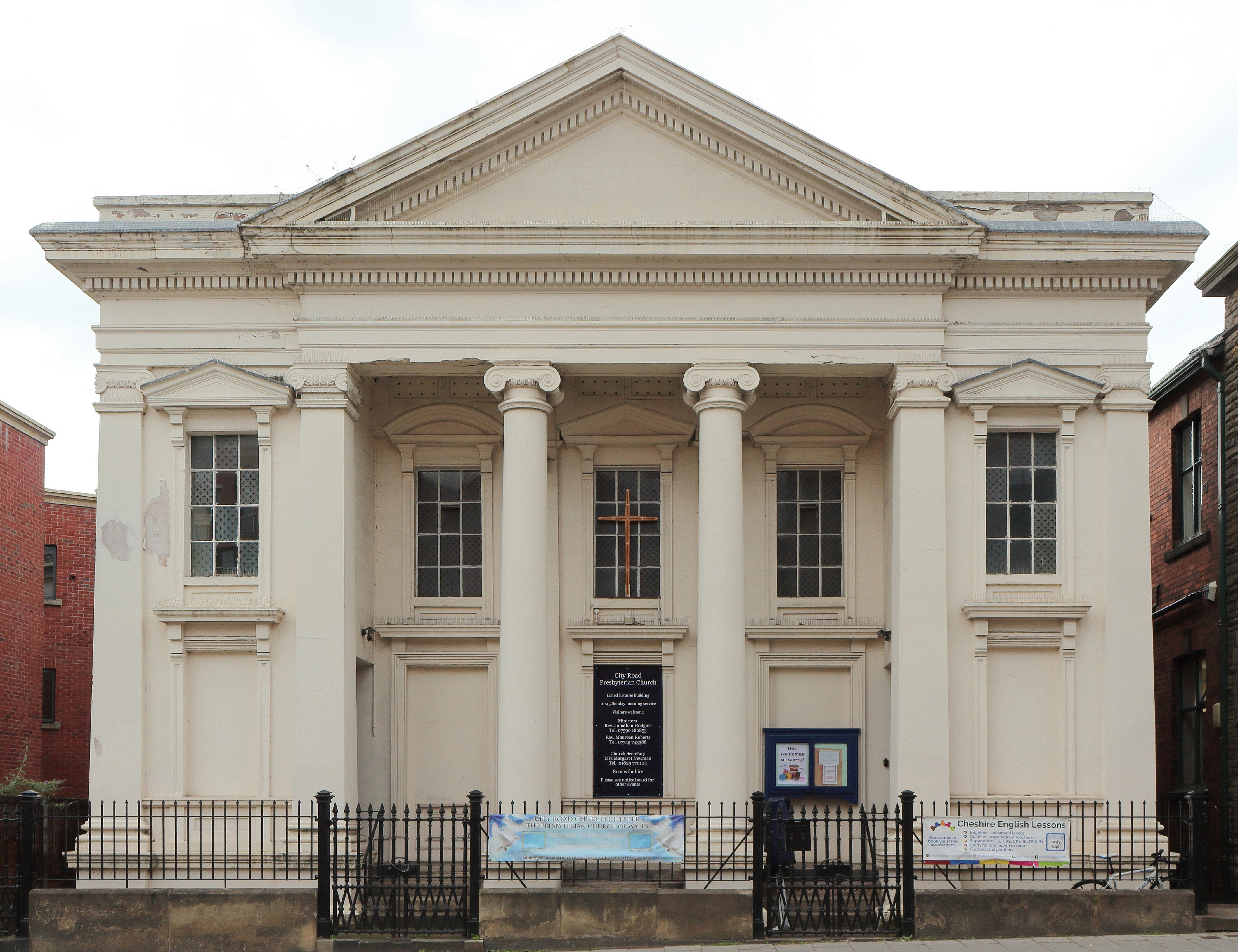 Grade II listed Presbyterian church, 1864, by Michael Gummow of Wrexham wuth stucco front, brick sides and rear, grey slate roof. Front elevation across City Road.